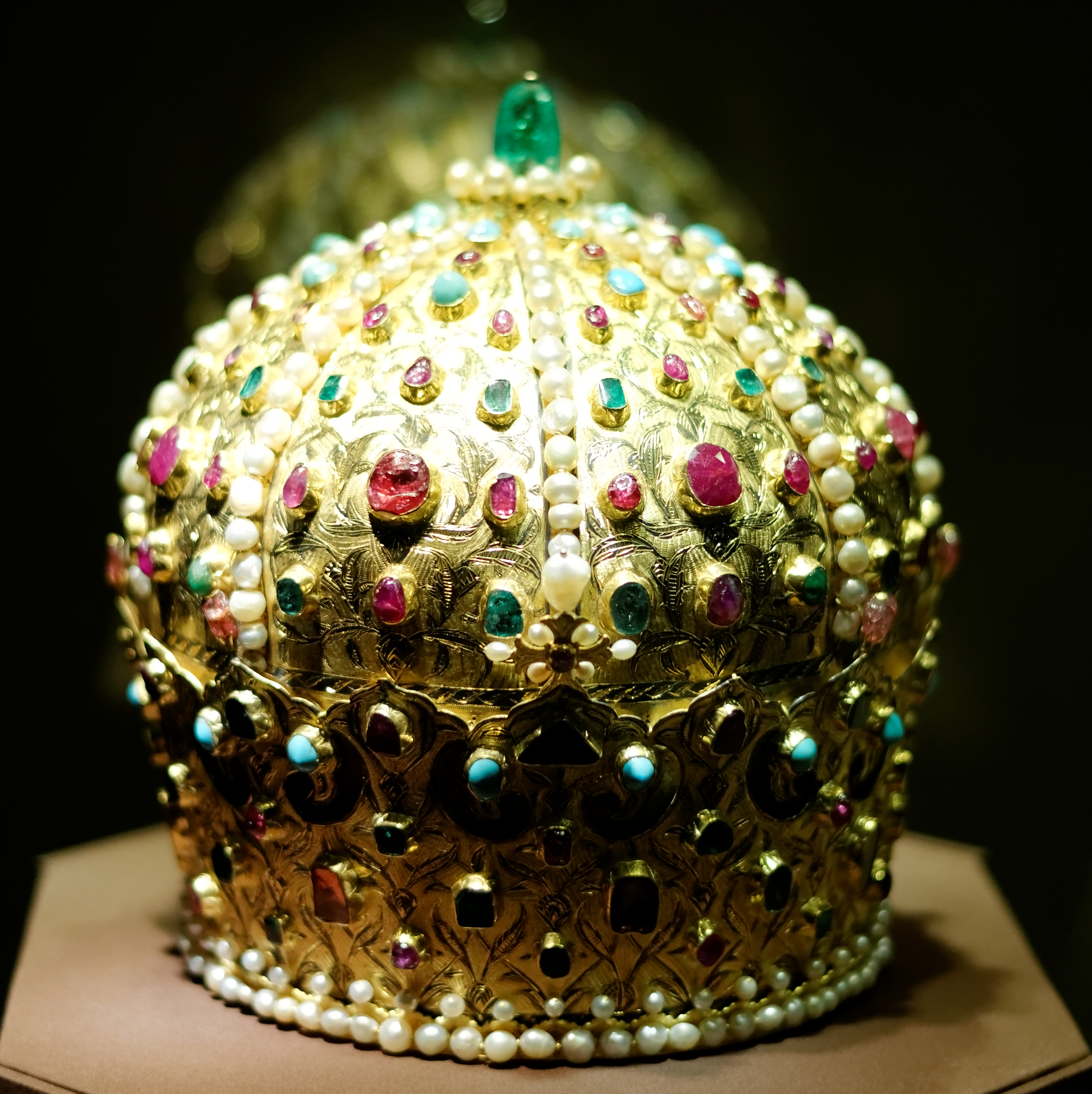 crown of Stephen Bocskay in Schatzkammer in Wien (Austria). Crown was made in 1605 in Turkey. It is golden, with gems, perls, and with silk.